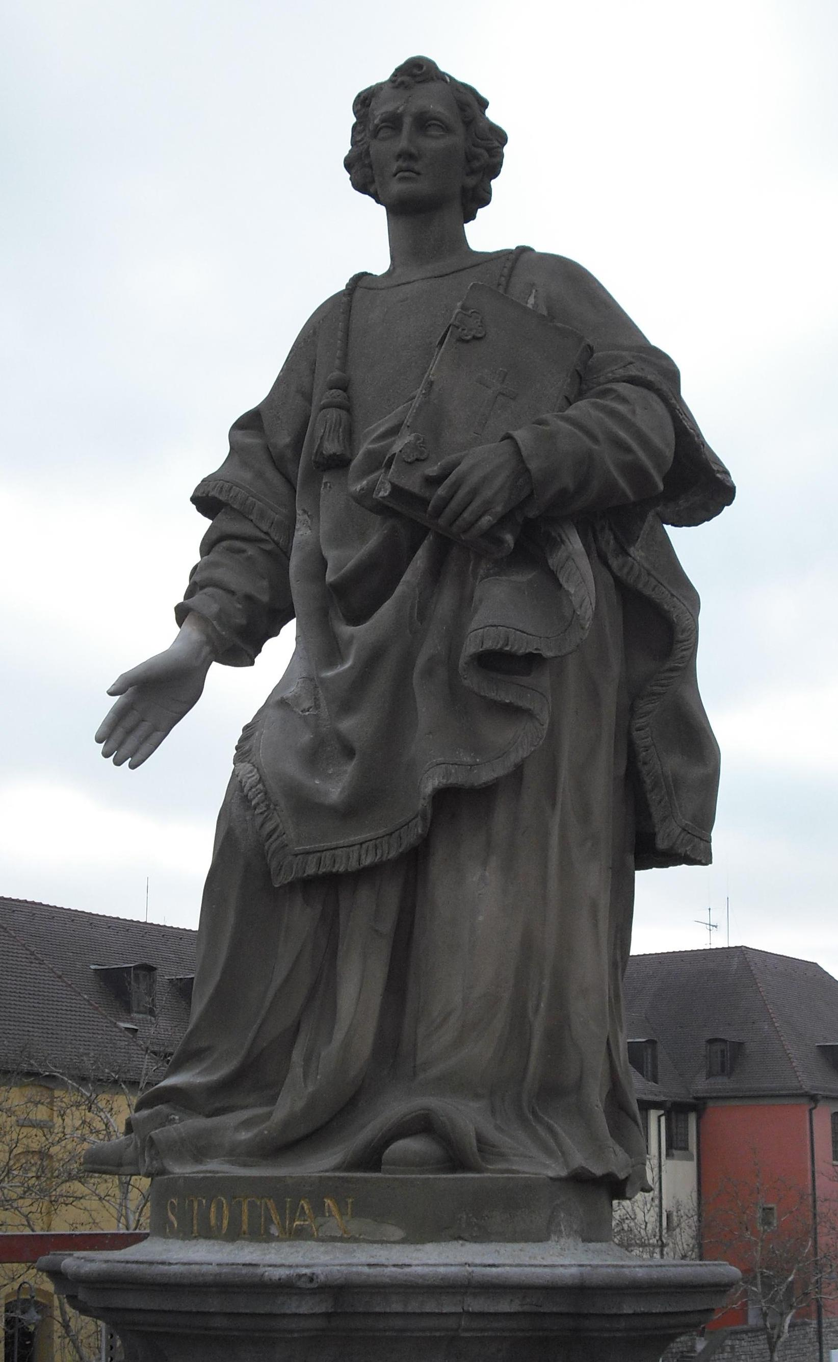 The statue of Saint Totnan on Würzburg's Alte Mainbrücke.